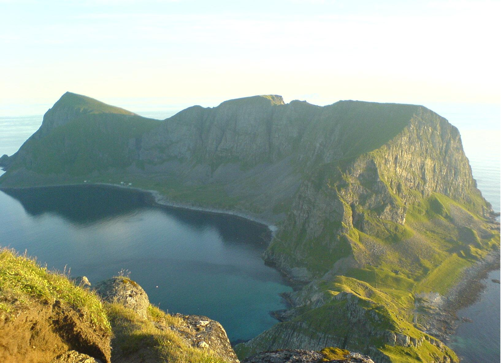 Picture of Måstadfjellet, Værøy